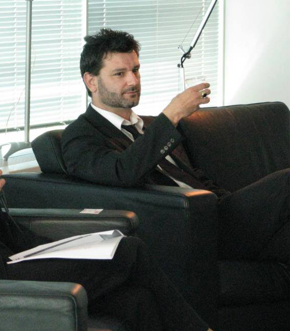 Author Klaus Josef Stimeder (aka JM Stim) at a reading in Toronto on 14 April 2012